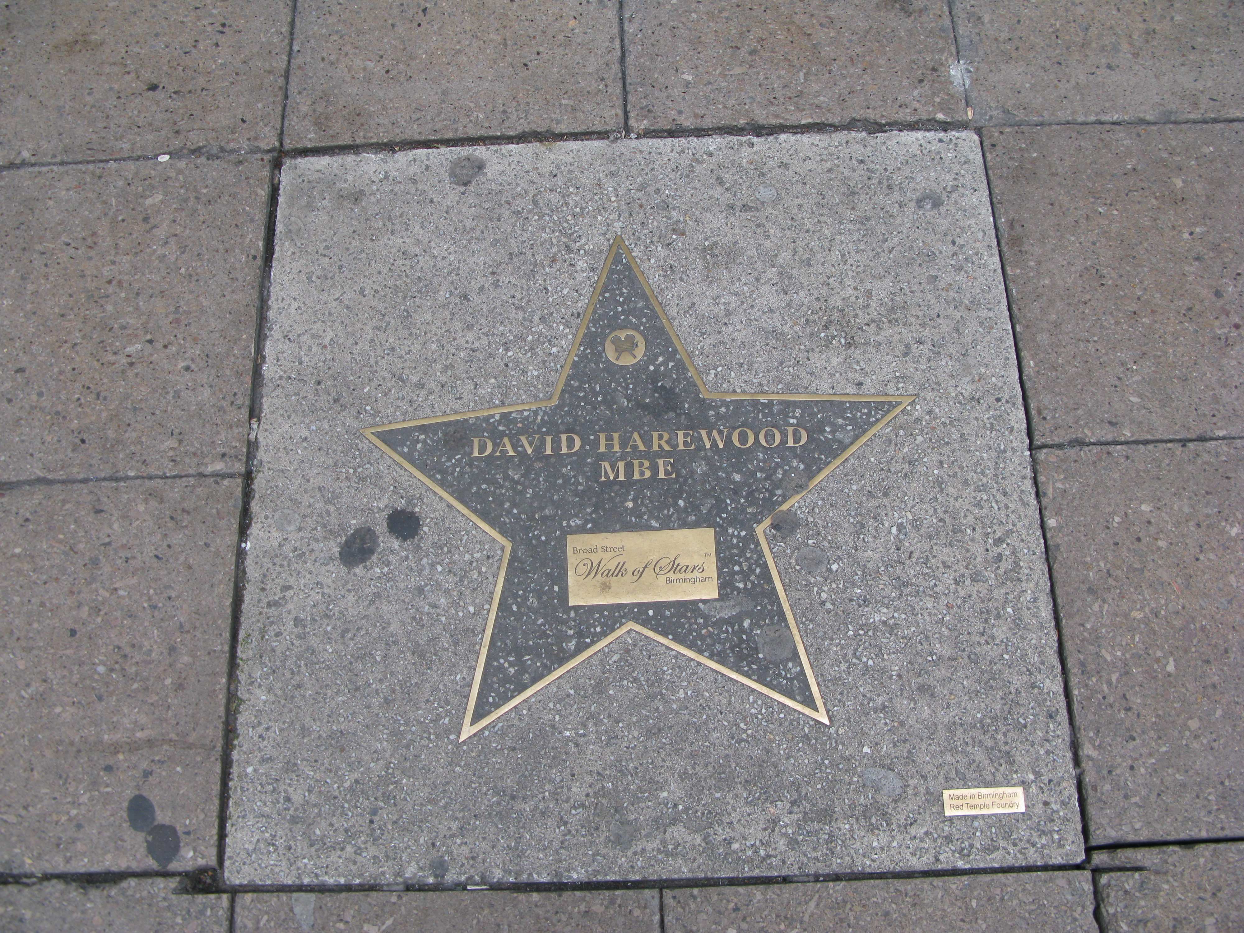 part of the Walk of Stars project. Embedded Pavement Plaques along the length of Broad Street. Most are clusterred towards the City end